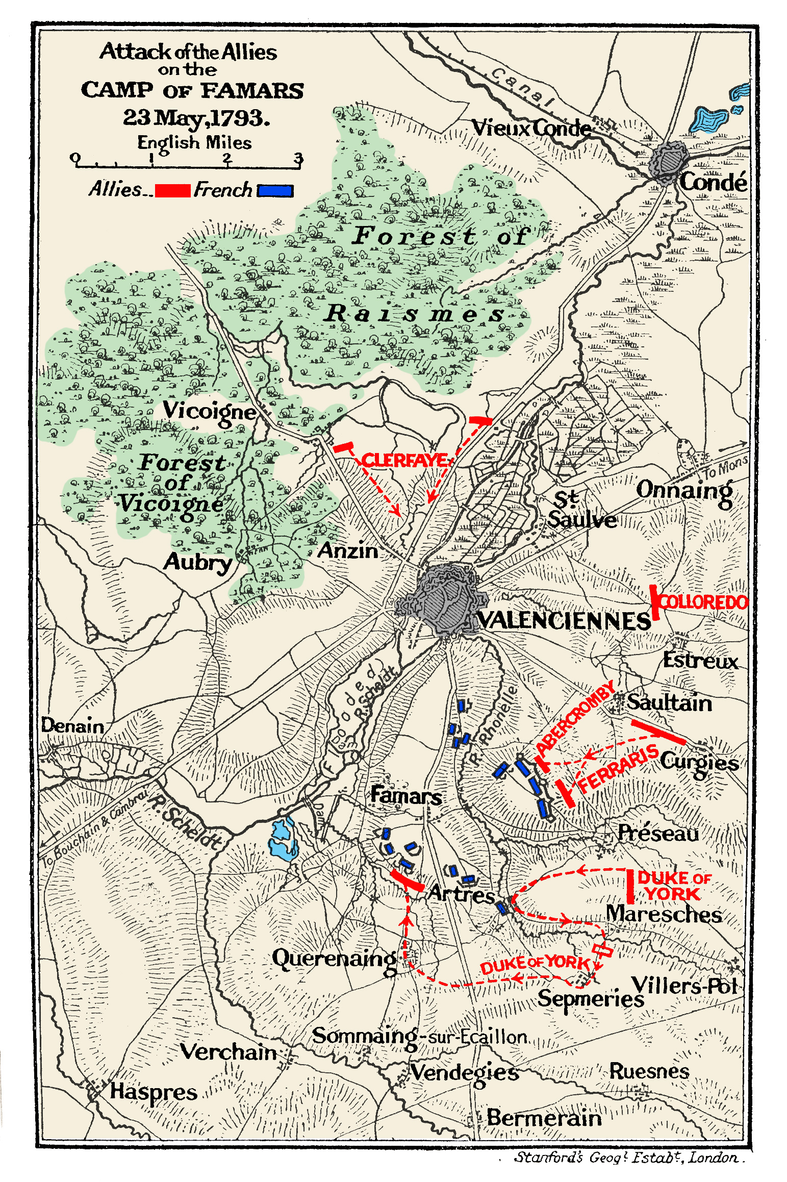 The Battle of Famars 23rd May 1793. Coloured adaptation of original by George Stanford, in Fortescue 'A History of the British Army' Vol 4 (1917). Parts of the battlefield of Raismes 8th May are also shown.